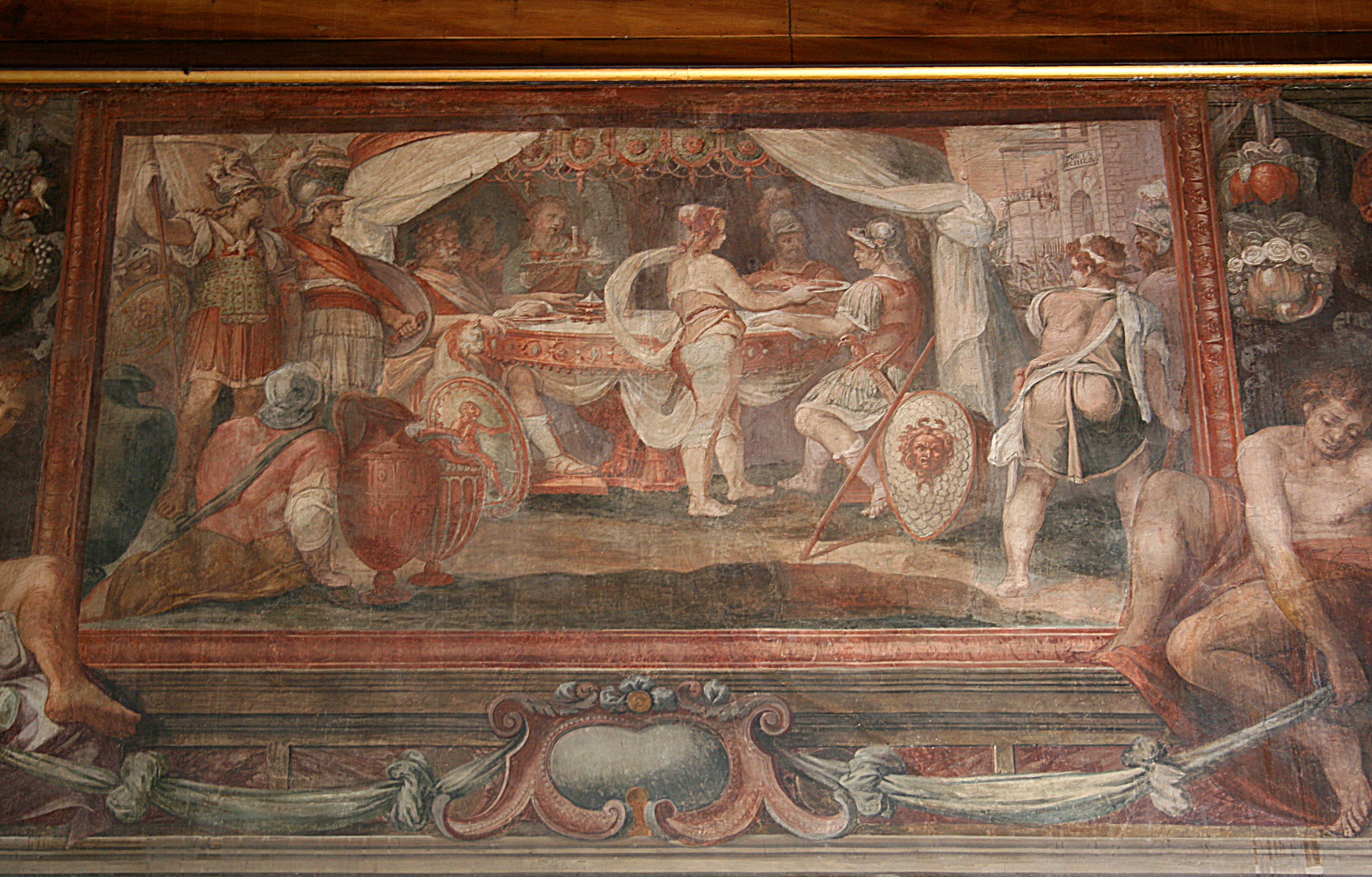 Fresco adorning the wall of the room XX of the Gregorian Etruscan Museum.